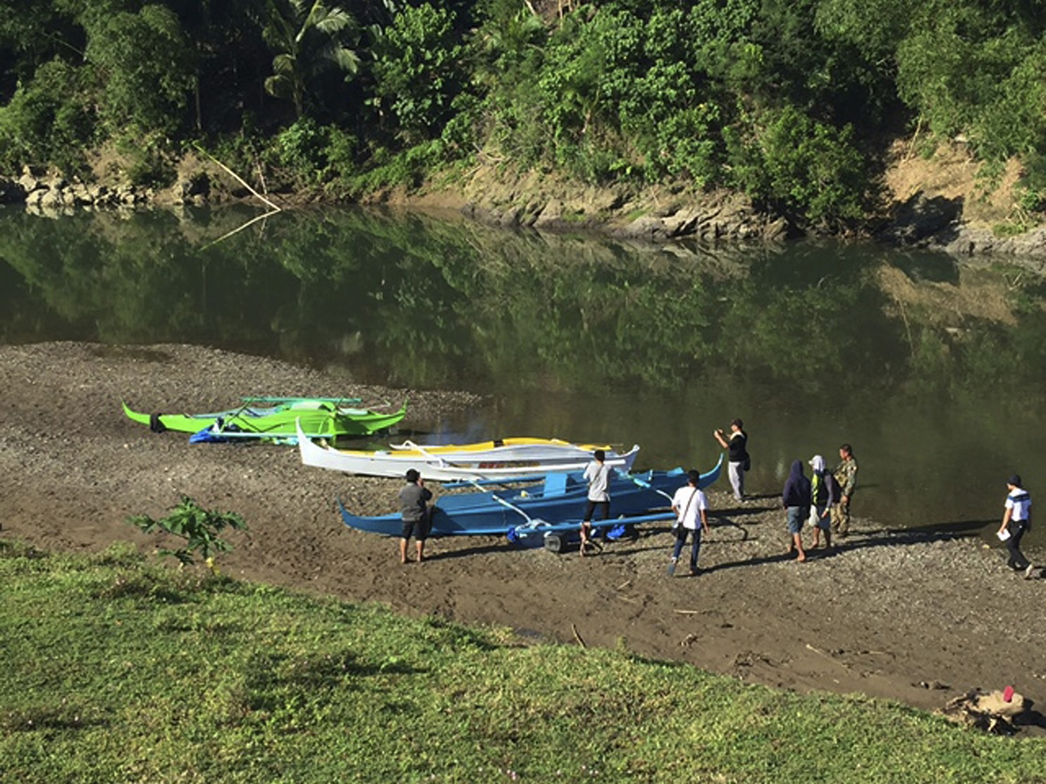 Three pump boats used by the Abu Sayyaf in the 2017 Bohol clash